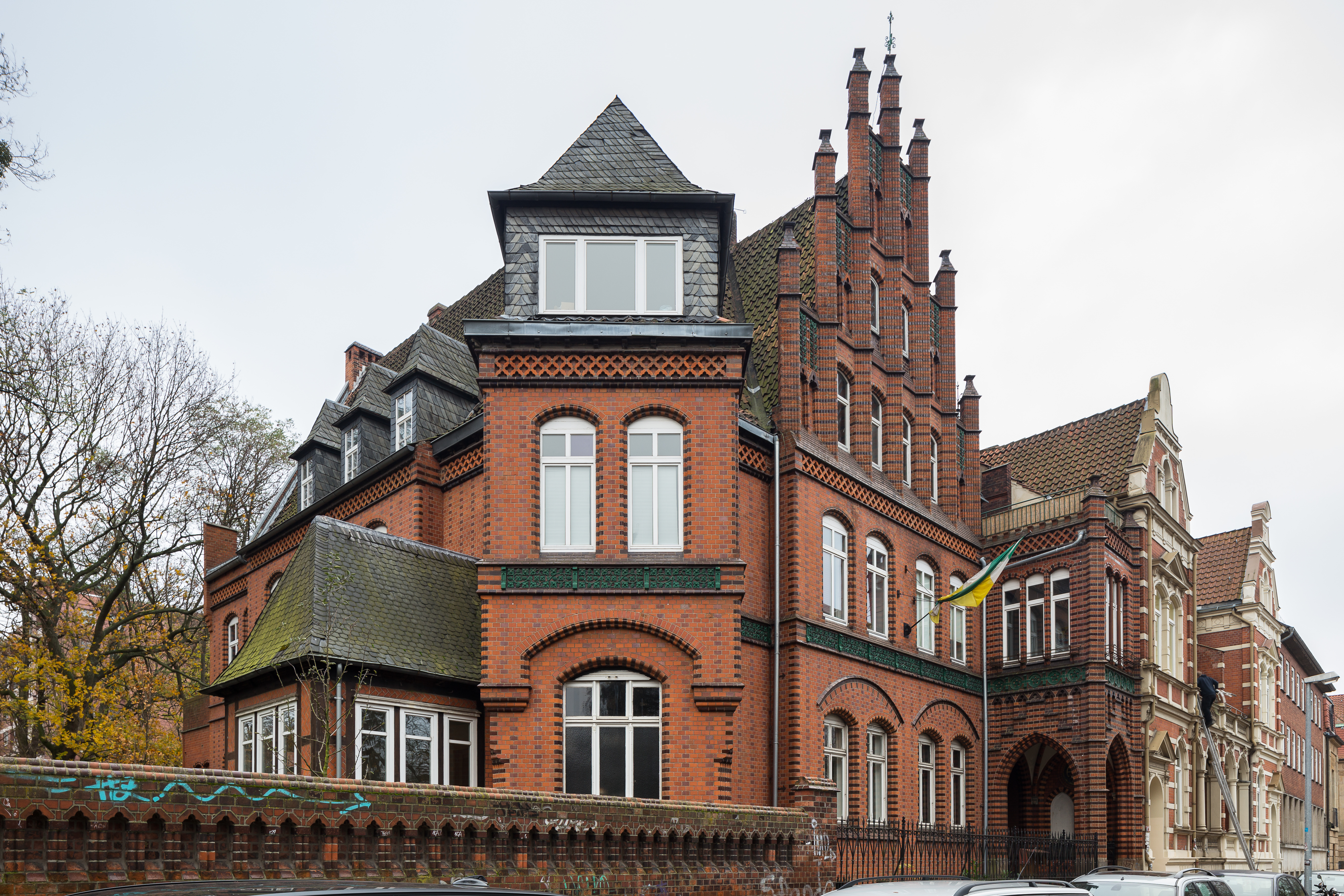 Apartment house "Schwarz" located at Wilhelm-Busch-Strasse no. 24 in Nordstadt district of Hannover, Germany.